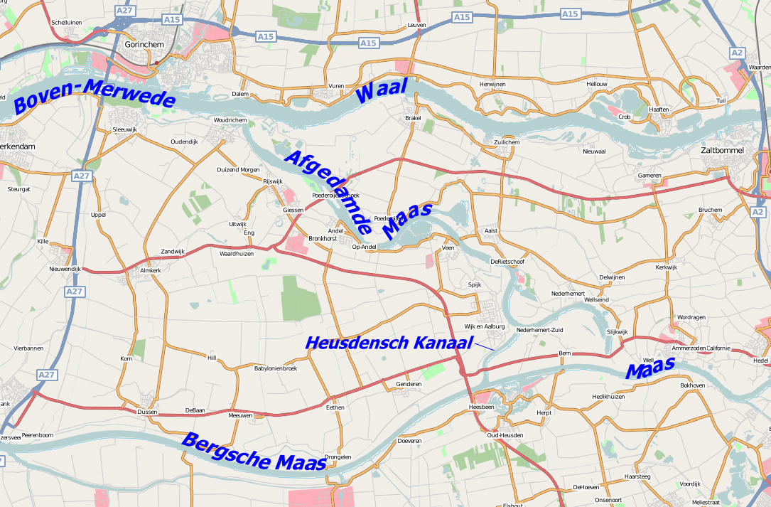 Map of the surroundings of Dutch river Afgedamde Maas. The background map is taken from , I just drew the river names on it.